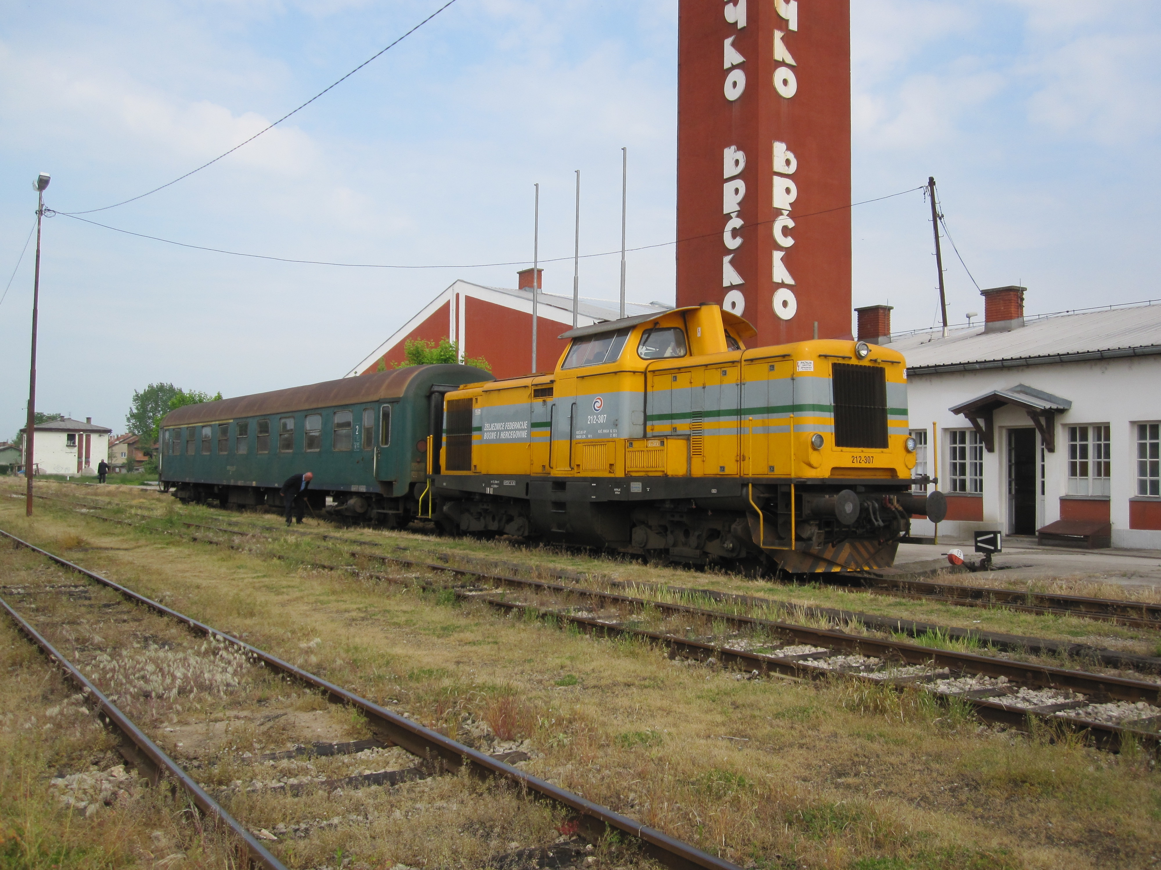 Former DB class 212s are now operating in Bosnia. They have been ETH fitted meaning a an all year-round service on the lines from Tuzla to Brčko as well as Novi Grad to Bihać. Previously these routes were class 661 hauled which could not heat the stock. Here at Brčko I spent a couple of hours watching freight movements as well as the incoming service which after running round, returned back to Tuzla.